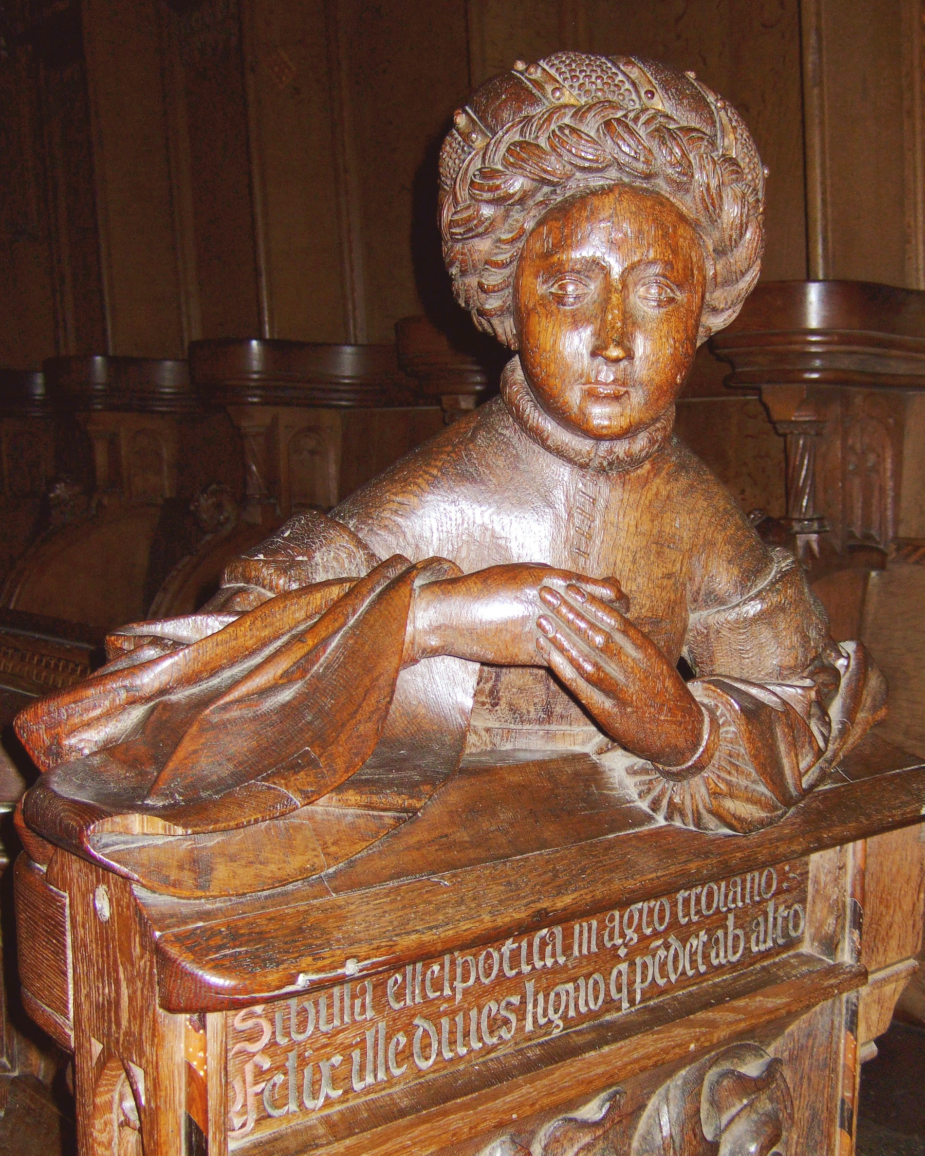 The Lutheran cathedral "Ulm Münster" of Ulm/Germany, carved bust of the "Hellespontische Sibylle"